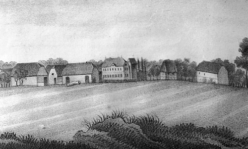 Mascherode (quarter of Braunschweig), as seen from Braunschweig, ca. 1825